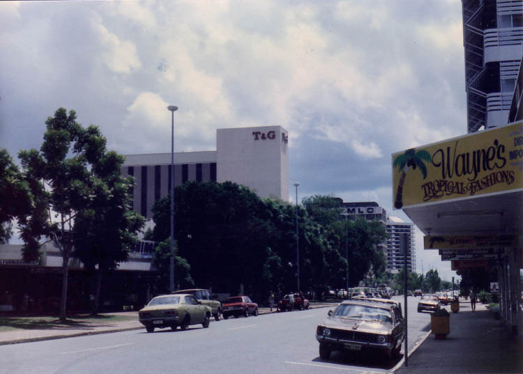 Downtown Darwin